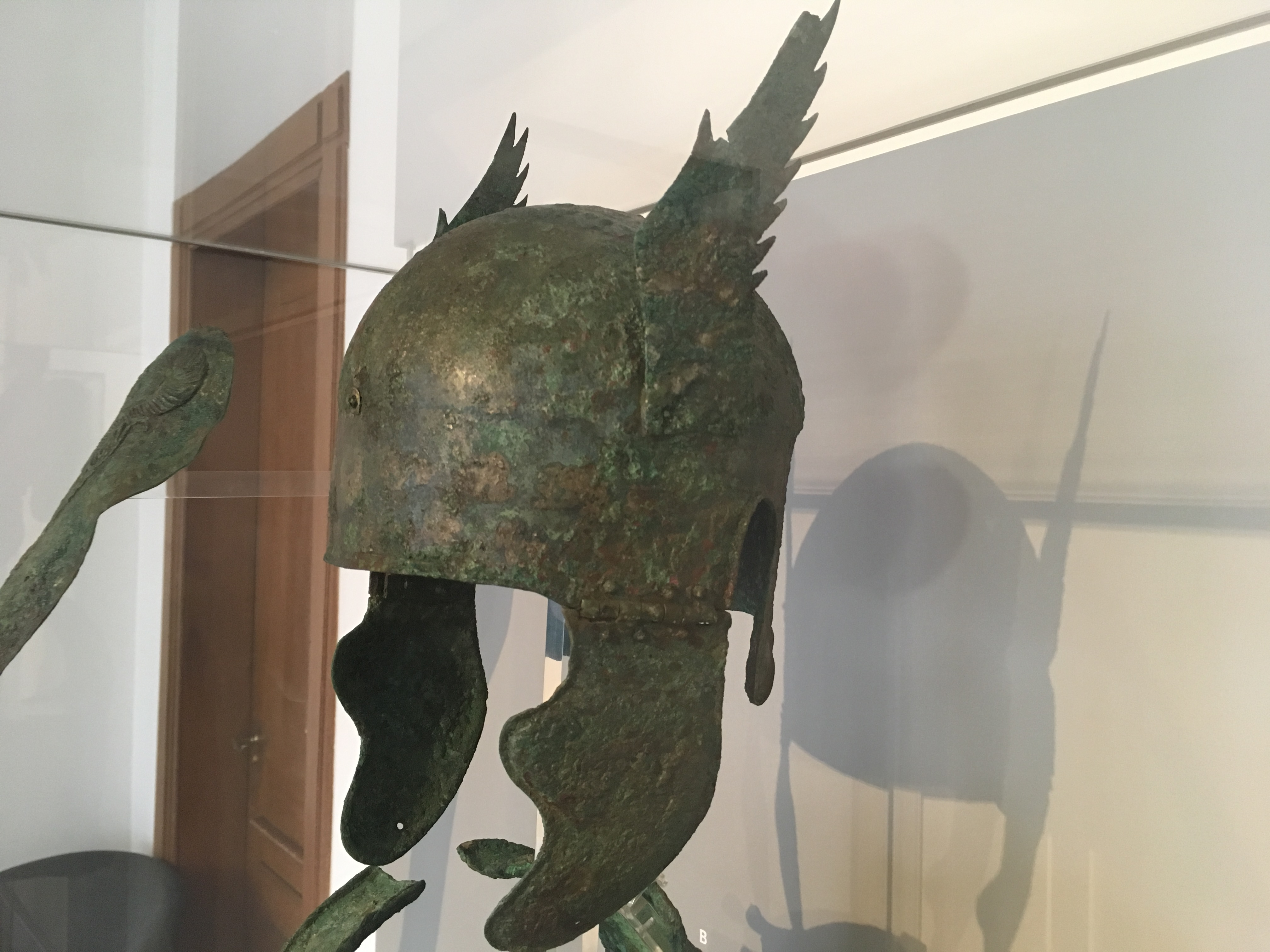 Helmets in the Antikenmuseum Basel und Sammlung Ludwig